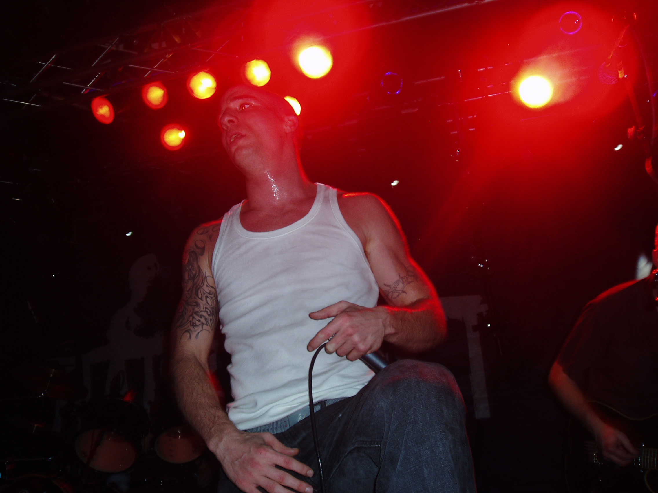 The Swedish hardcore band Raised Fist, live at Sticky Fingers, Gothenburg, Sweden. The picture includes the bands singer